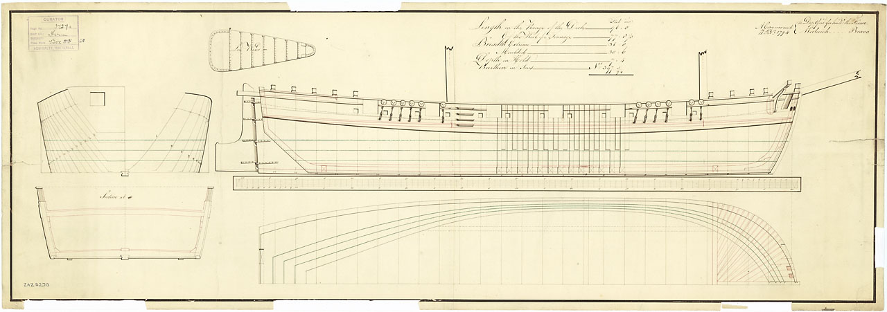 FIRM 1794 lines